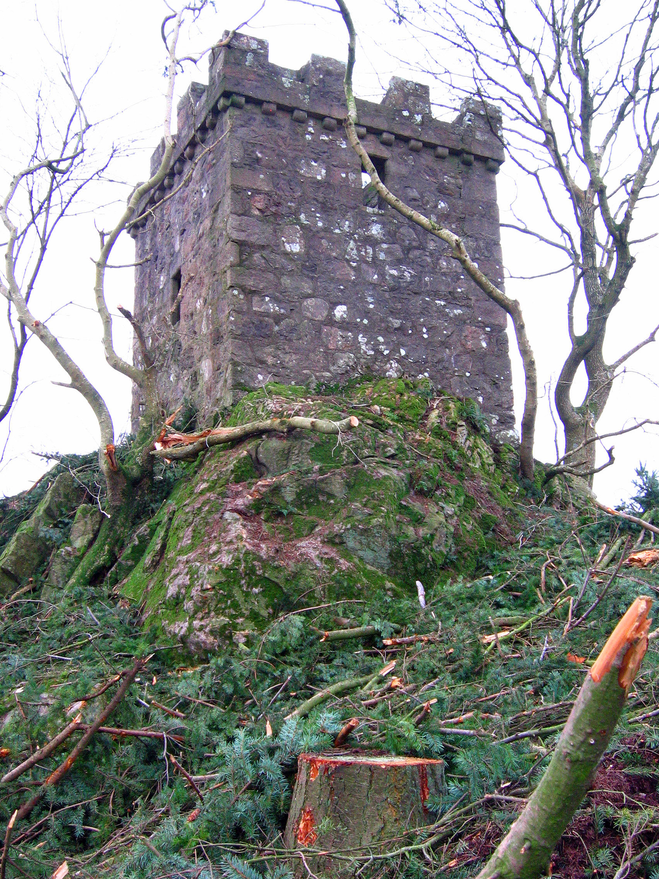 Belskavie tower Coalford This was a lookout tower for nearby Drum Castle, there are nice views toward Peterculter and Aberdeen and the hills of Deeside.